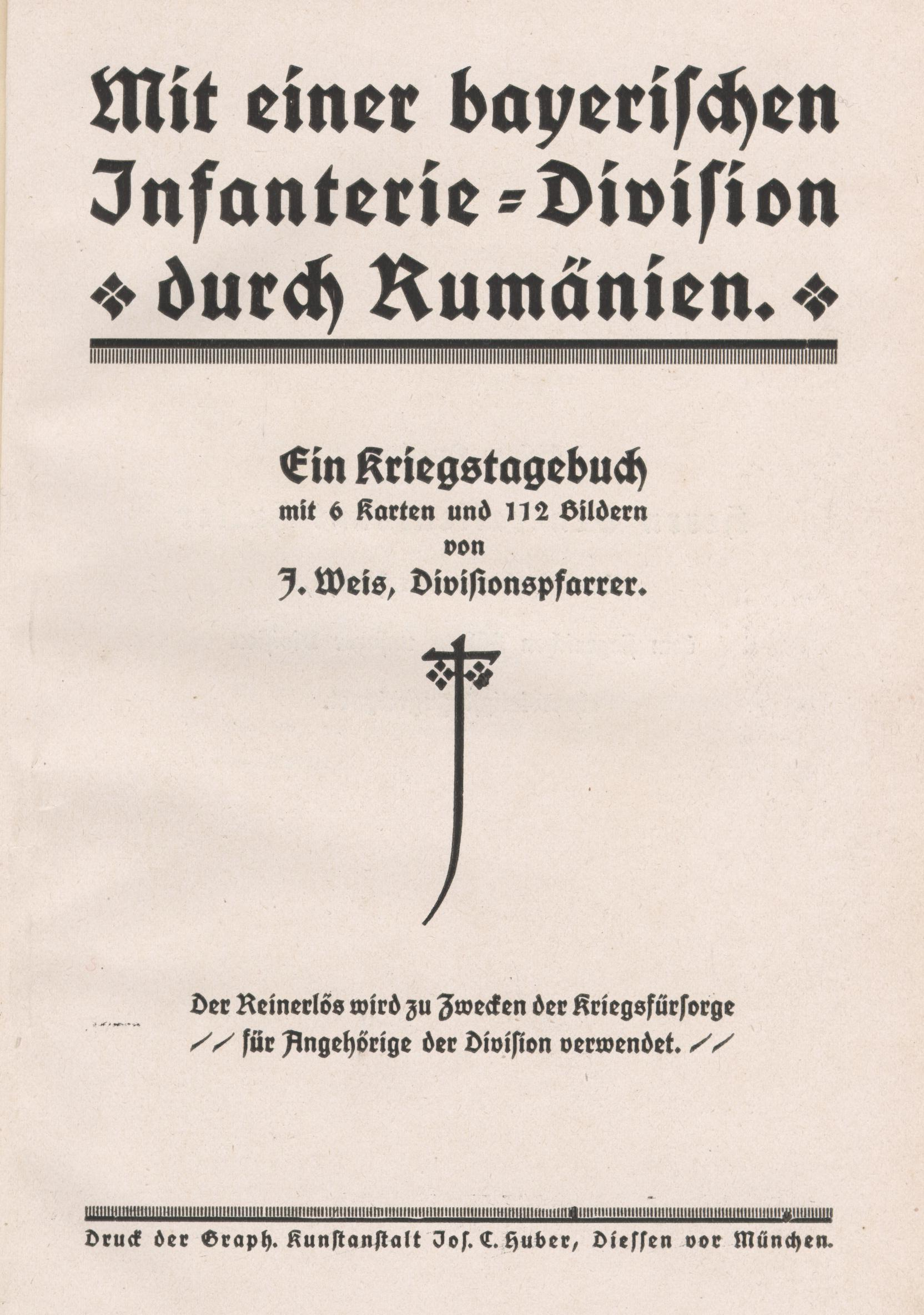 Rev. Fr. Jakob Weis, Zweibrücken, Title of his book (selbst eingescannt)